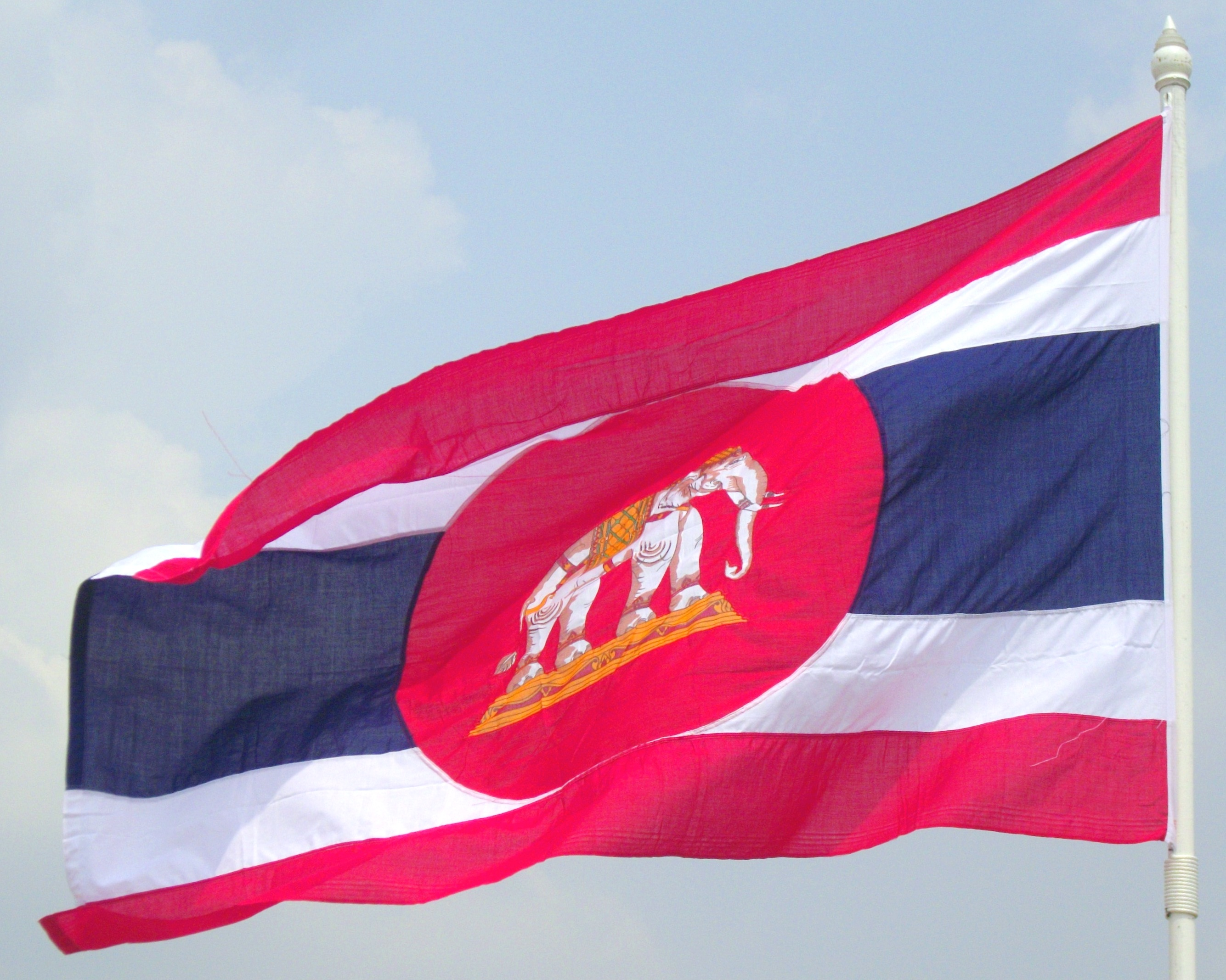 The Naval Ensign of Thailand at Royal Thai Navy Convention Hall, Bangkok